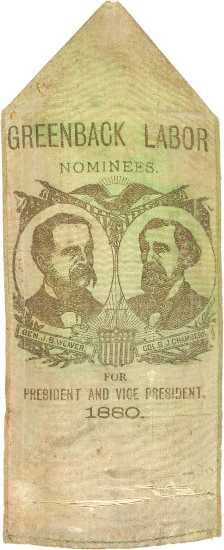 An 1880 Greenback Labor jugate ribbon, supporting Weaver and Chambers.